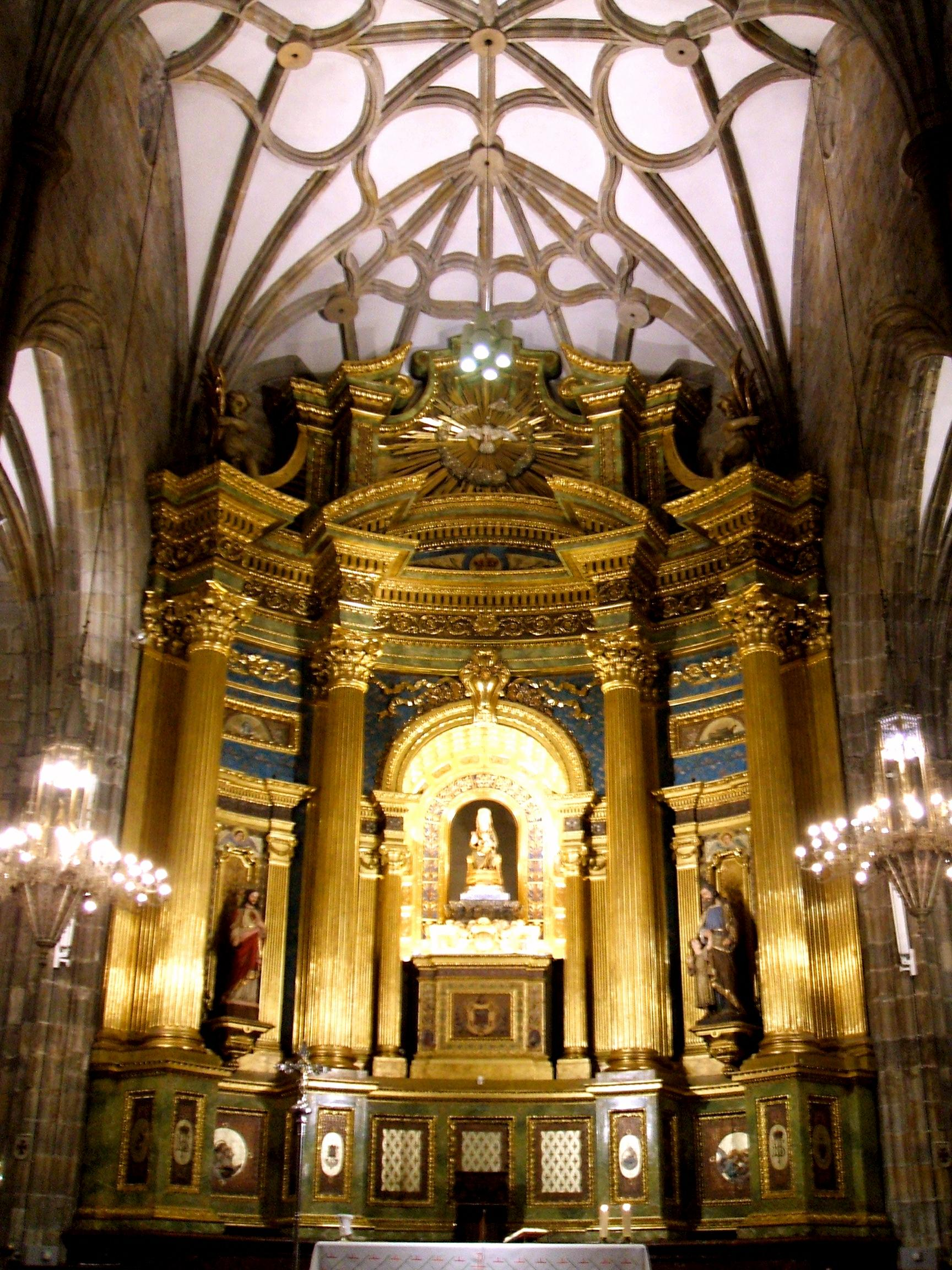 Retablo mayor de la Basílica de Nuestra Señora de Begoña, en Bilbao (País Vasco, España)